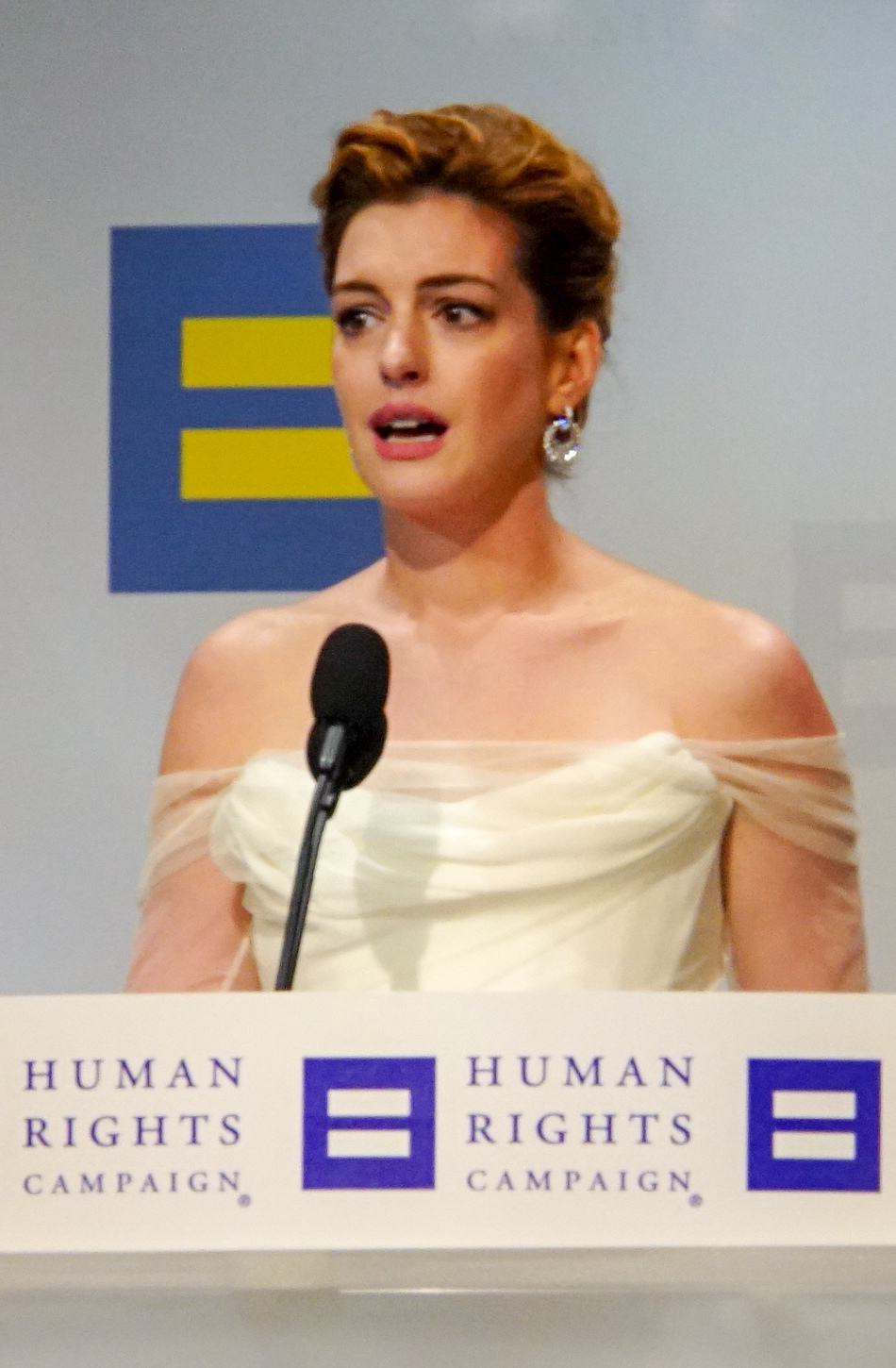 Anne Hathaway at the Human Rights Campaign National Dinner, Washington, DC USA, September 15, 2018